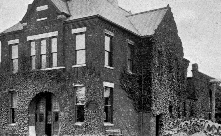 1891 photo of Steamer 10 in Albany, New York